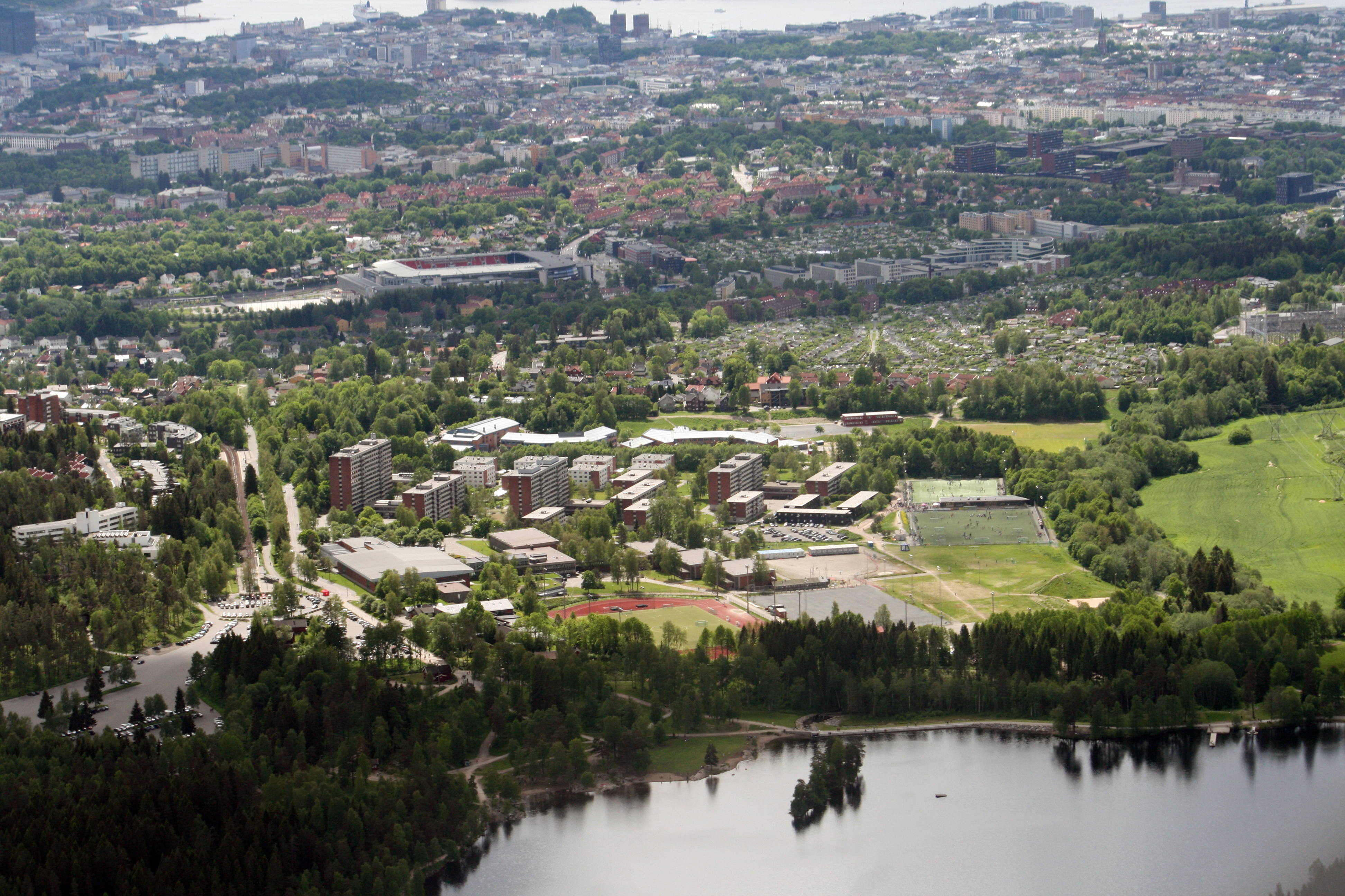 Aerial photograph from June 14th, 2015.